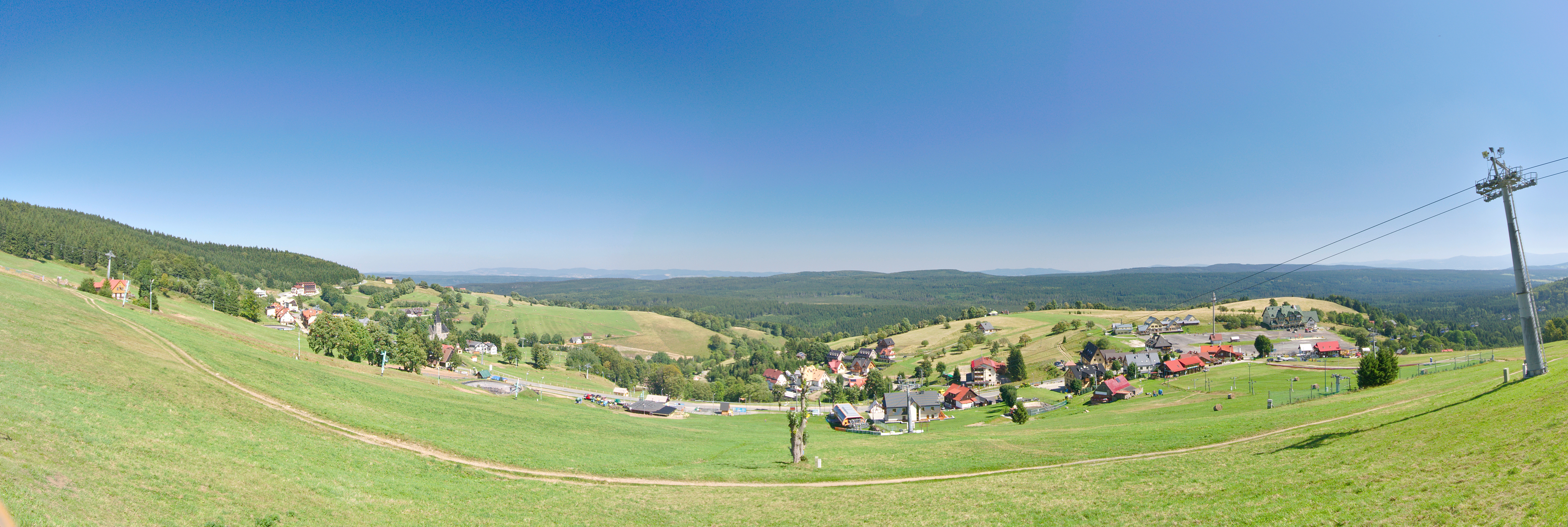 Panoramics, Zieleniec, Lower Silesian Voivodeship